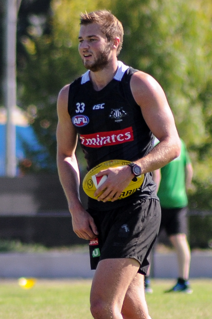 Rupert Wills during Collingwood training on 28 March 2017 at Olympic Park Oval in Melbourne, Victoria.